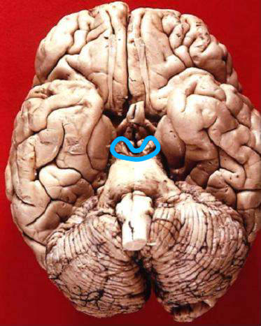 Highlighted area identifying the midbrain in a human brain.